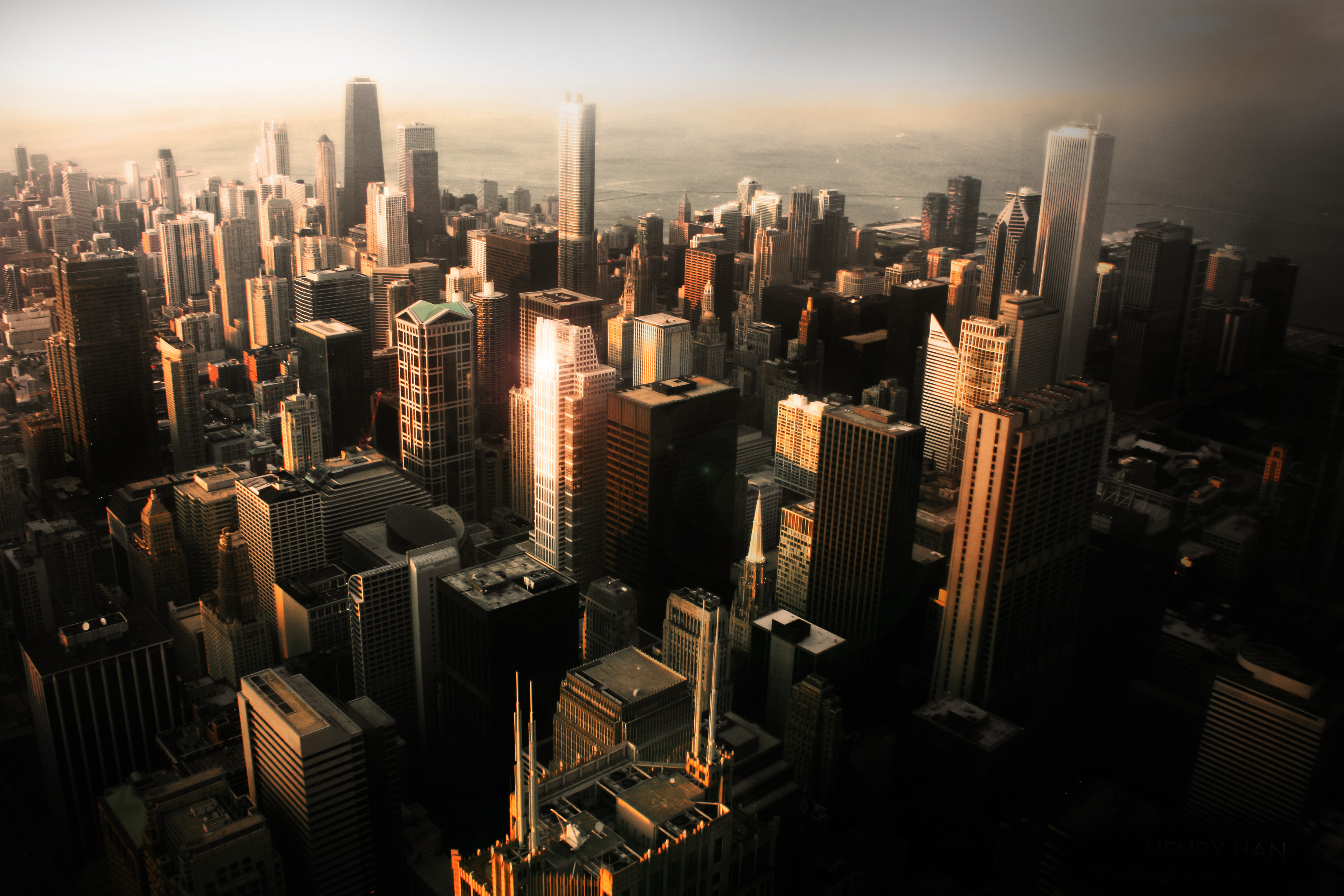 Chicago as seen from top of the Sears Tower